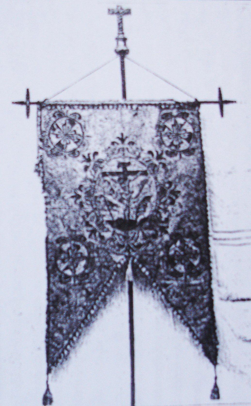 Standard (flag) of the Spanish Inquisition, 17th century